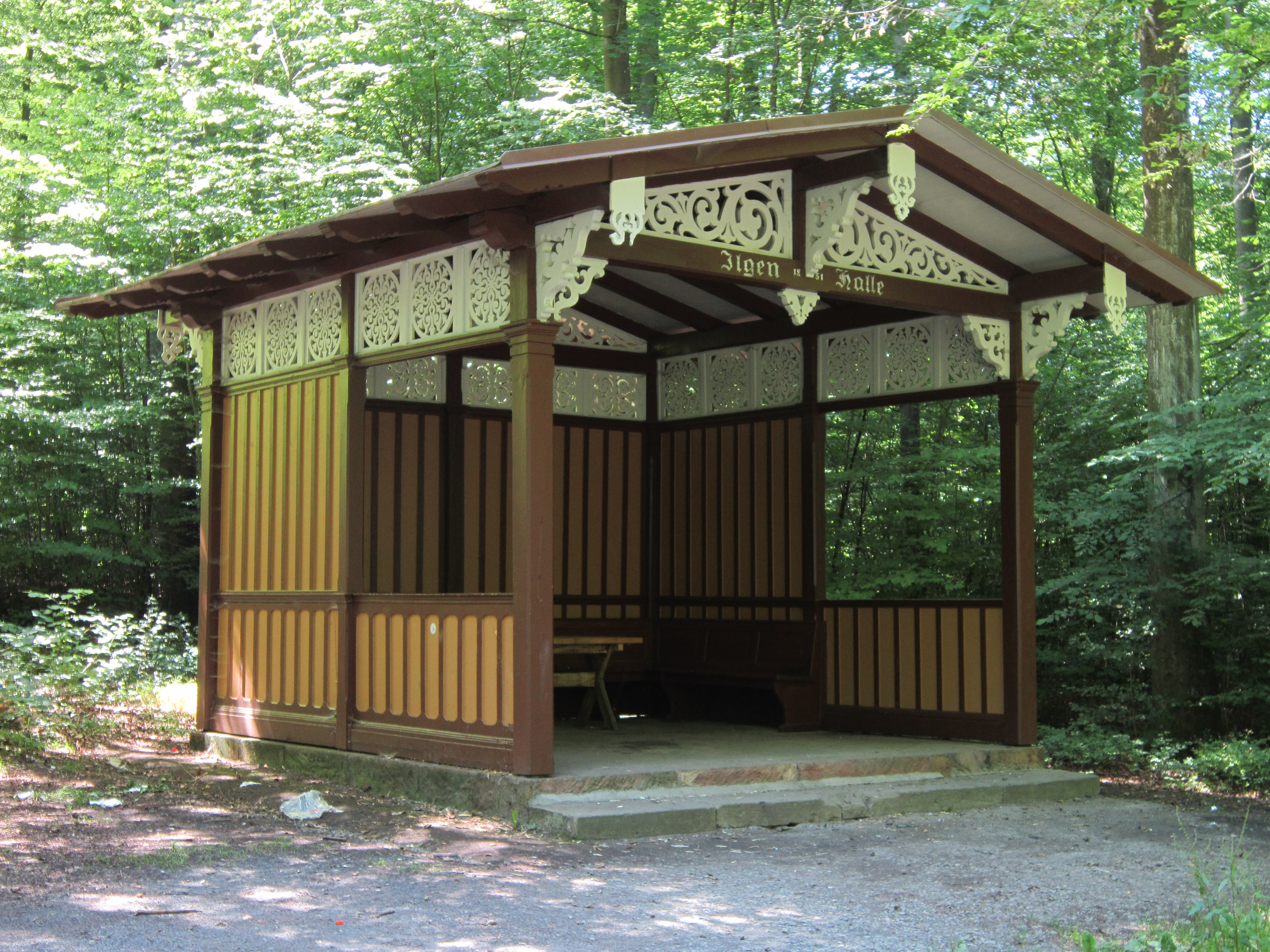 "Ilgenhalle" in the German spa town of Bad Kissingen in Lower Franconia (Bavaria).